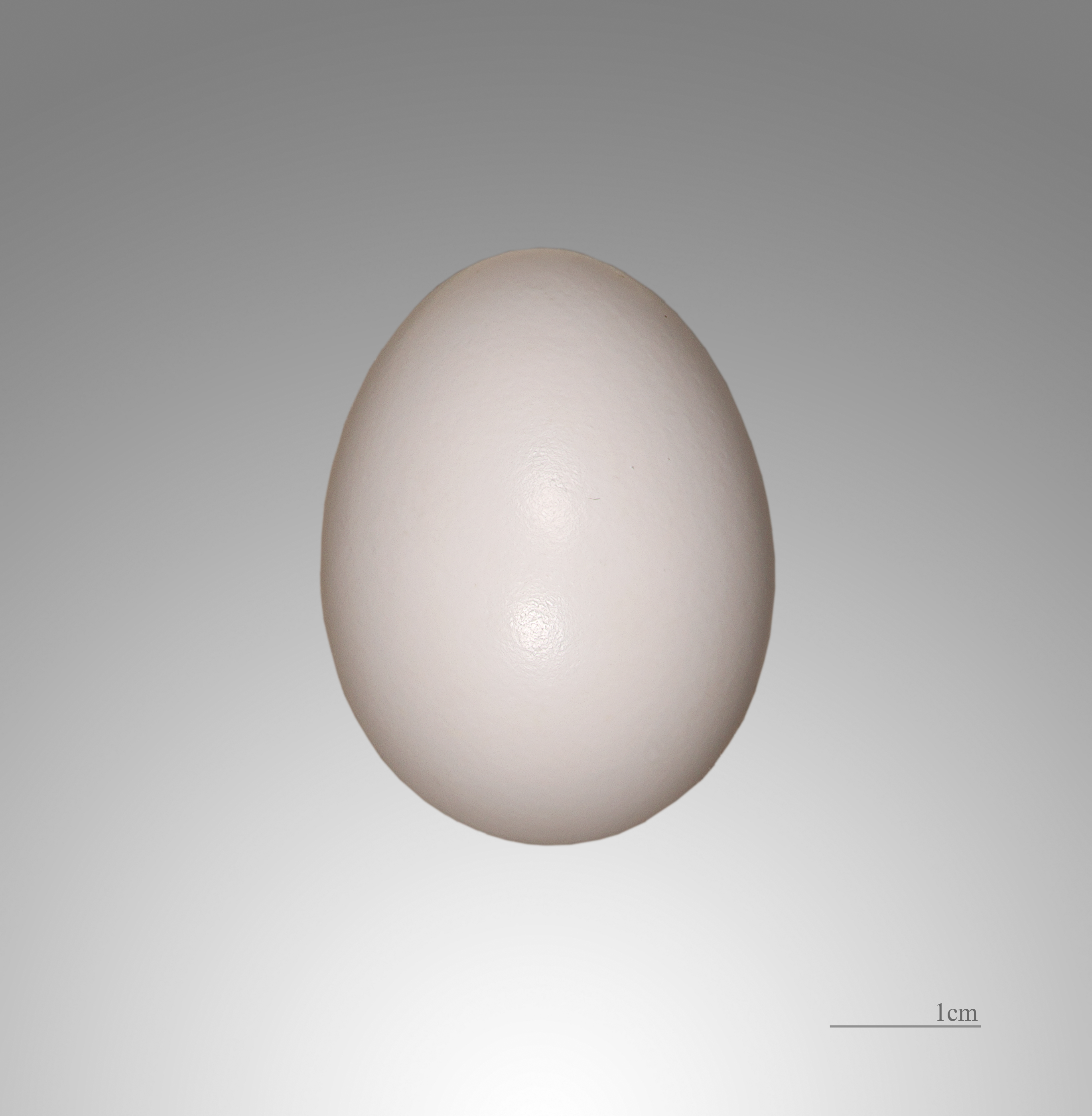 Egg of Stock Dove. Collection of Jacques Perrin de Brichambaut Locality: Jardin des Plantes Paris France